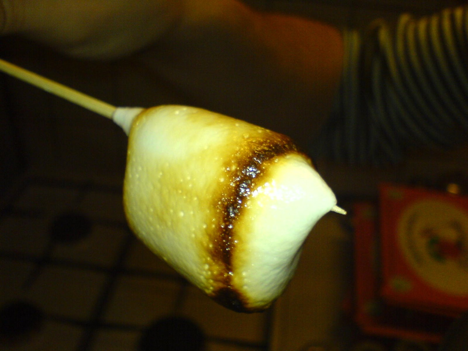 Marshmallow